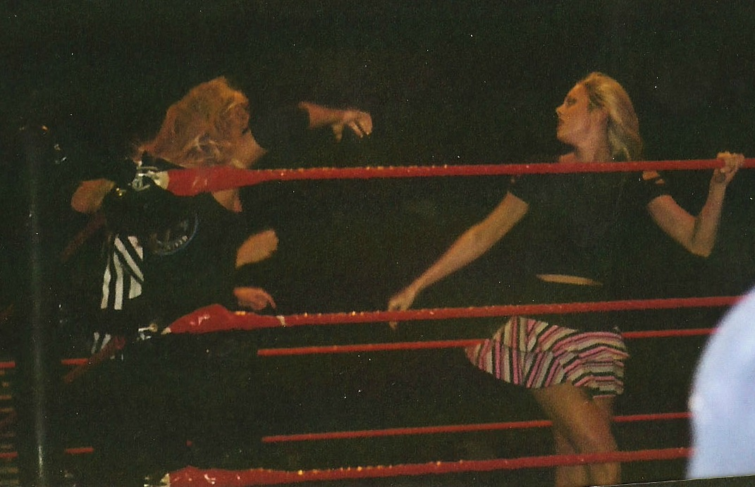 Stacy Keibler and Trish stratus (backwards) during a WWE Live event in October 2004.